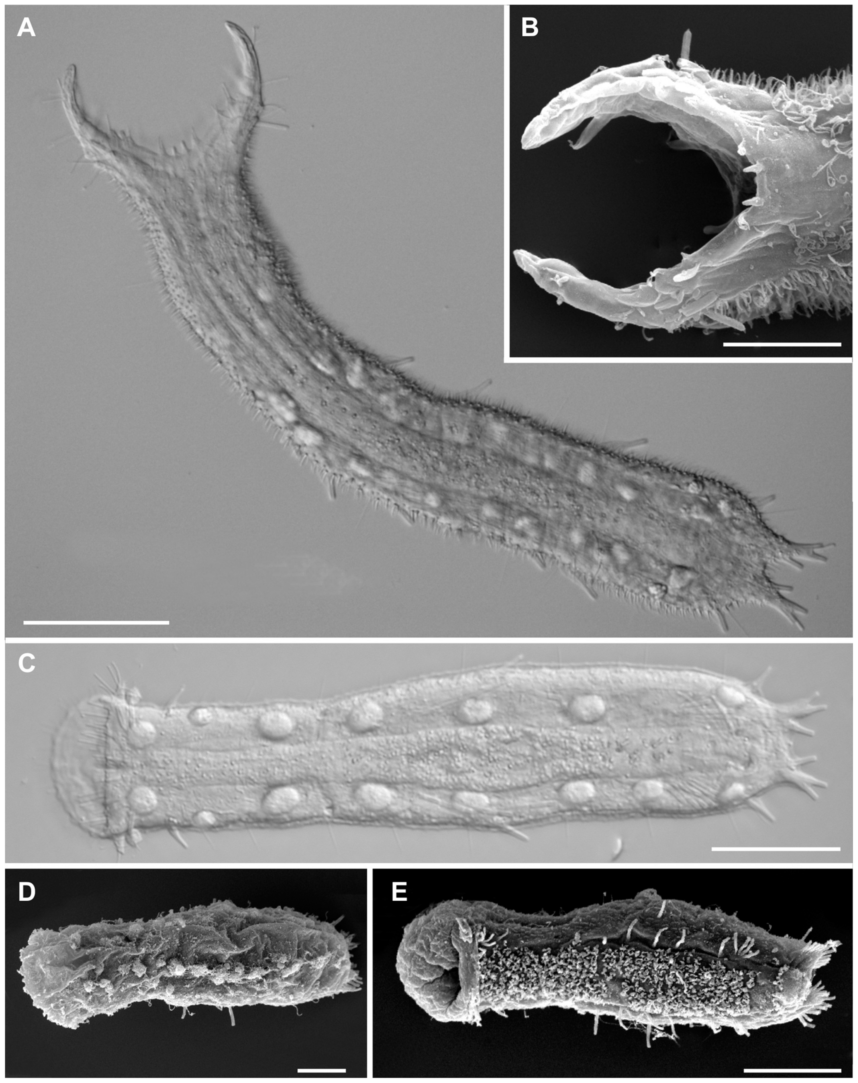 DIC (A, C) and SEM (B, D, E) photomicrographs showing the general body shape and aspects of the cuticular covering of representatives of the genera Pseudostomella and Ptychostomella. A, B, Pseudostomella etrusca, A, habitus, B, close-up of the anterior end showing the impressive oral palps; C, Ptychostomella sp. 1, habitus; D, Ptychostomella mediterranea, habitus, dorsal view; E, Ptychostomella sp., habitus ventral view. Scale bars A, C = 50 µm, B, D, E = 20 µm.